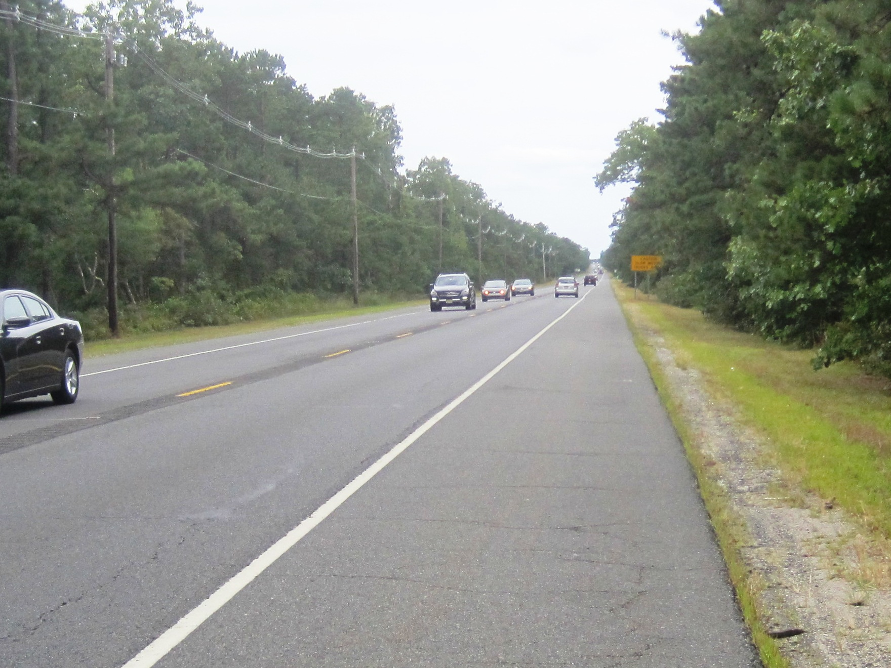 Photo showing westbound New Jersey Route 70 (and County Route 530) as it travels through the Pine Barrens of New Jersey. The photo was taken in Manchester Township.